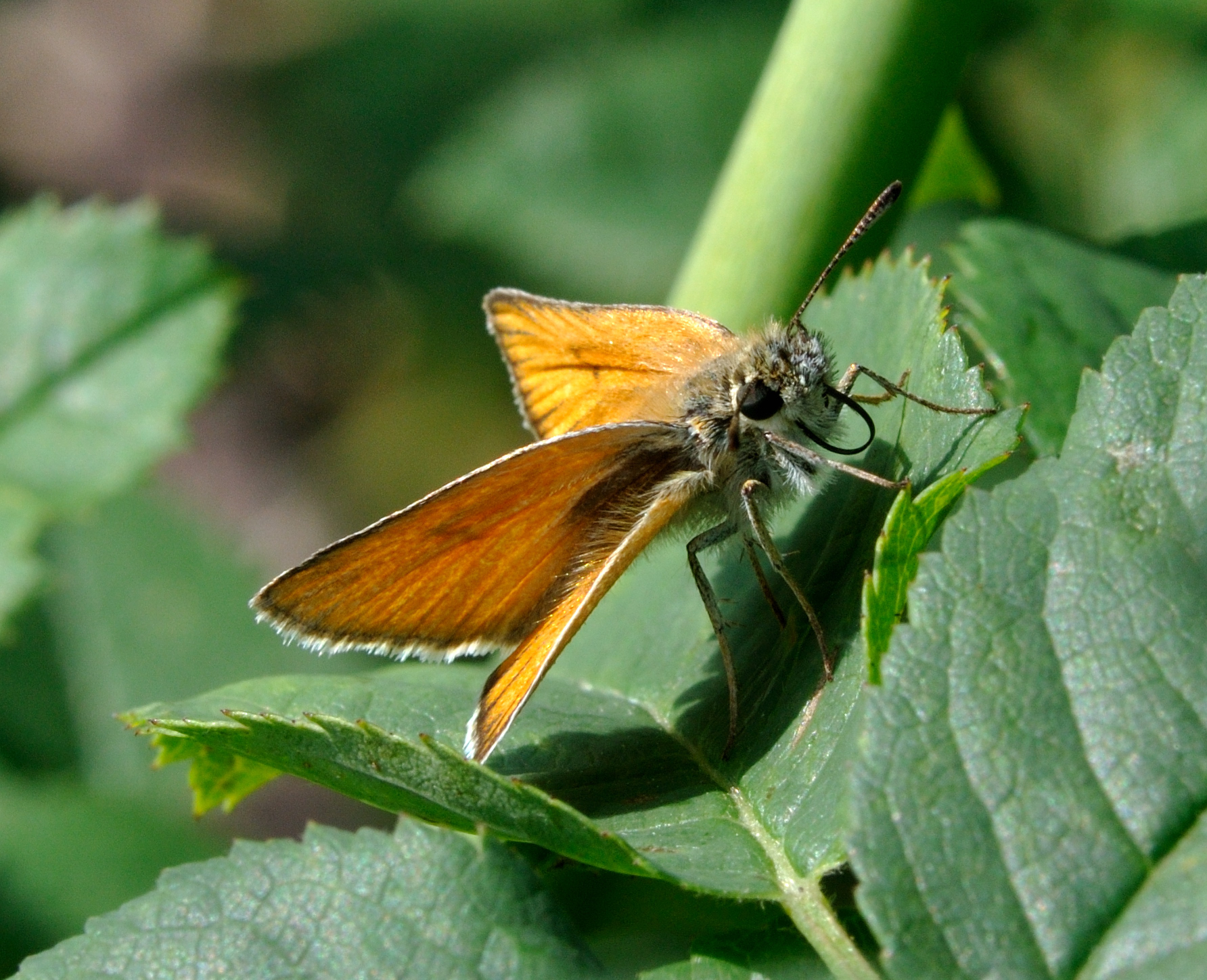 Essex Skipper (Thymelicus lineola) near the old airstrip, Frankfurt, Germany.